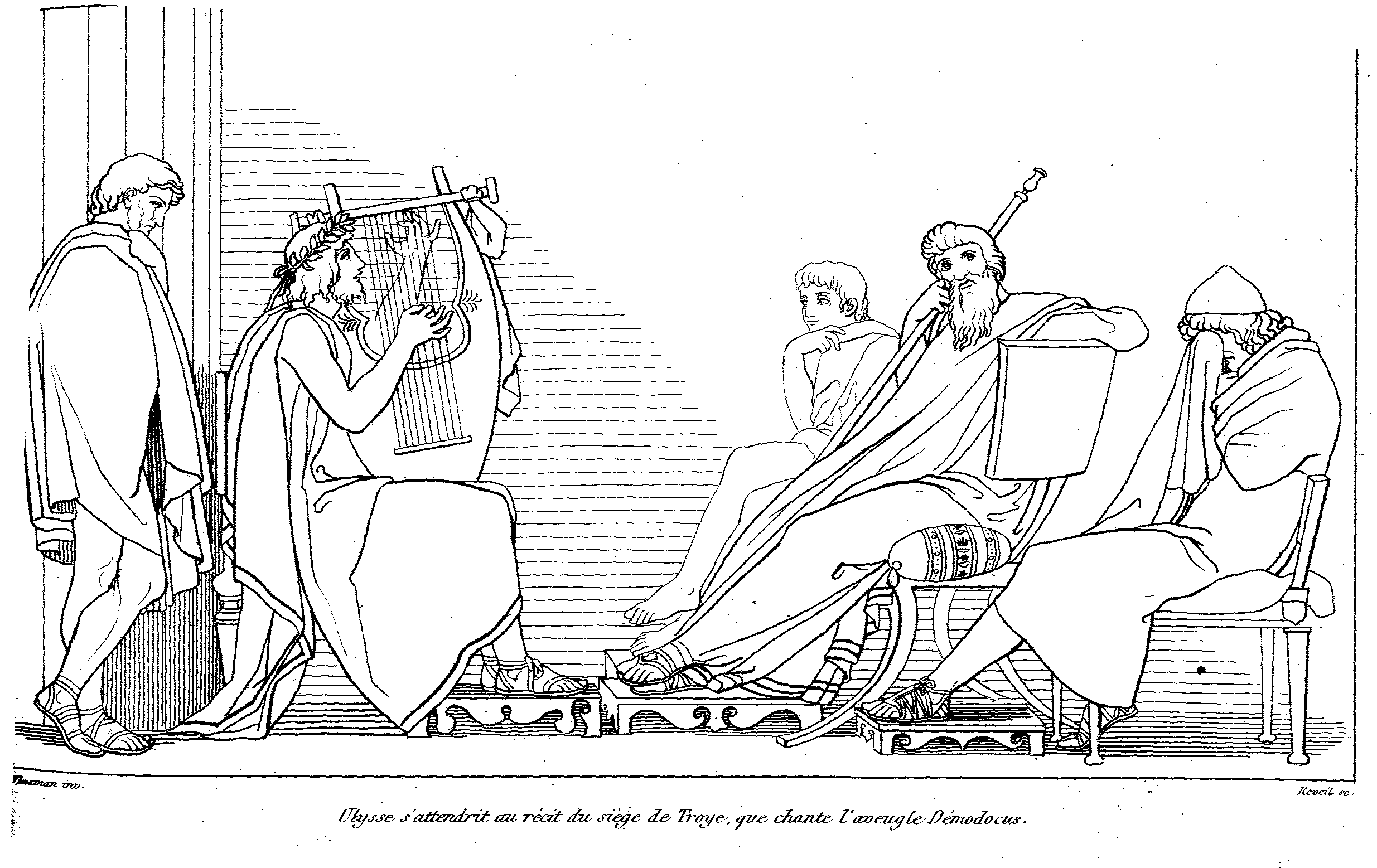 Illustrations of Odyssey